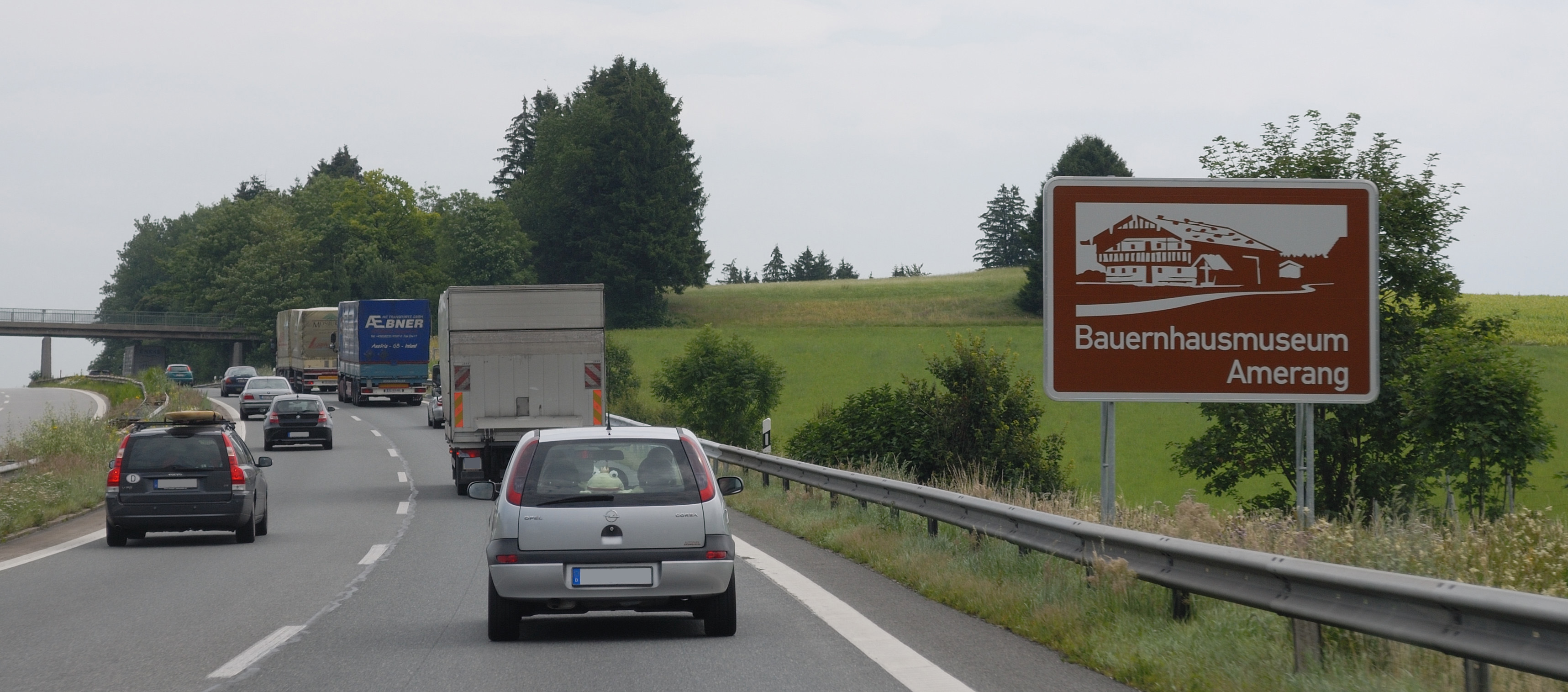 Road sign for the farm house museum in Amerang. Road shot from A 8.